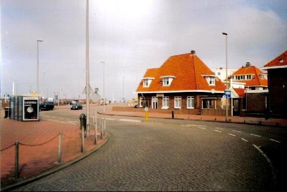 A street in Zandvoort, Holland